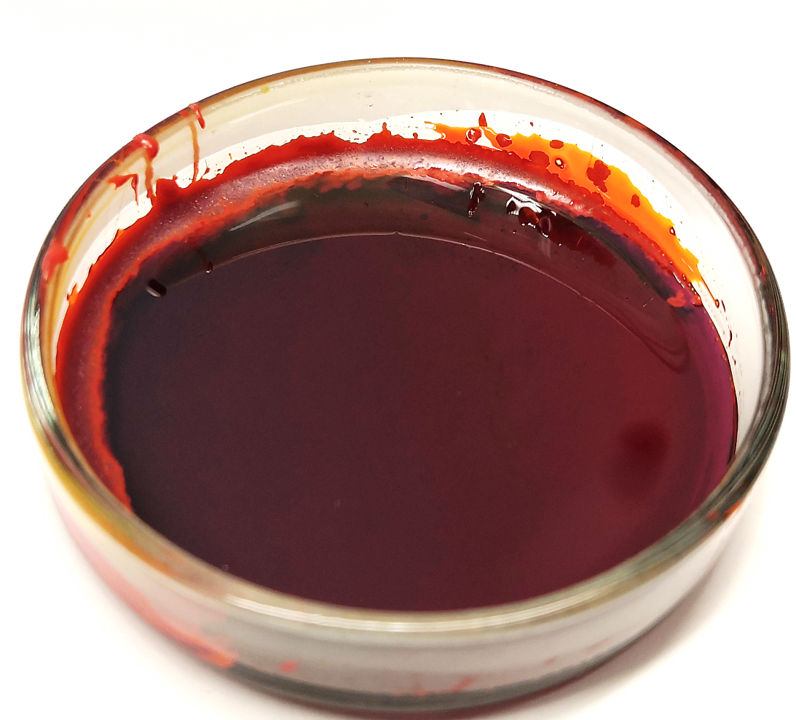 Inverse copolymerization product with 1,3-diisopropylbenzene